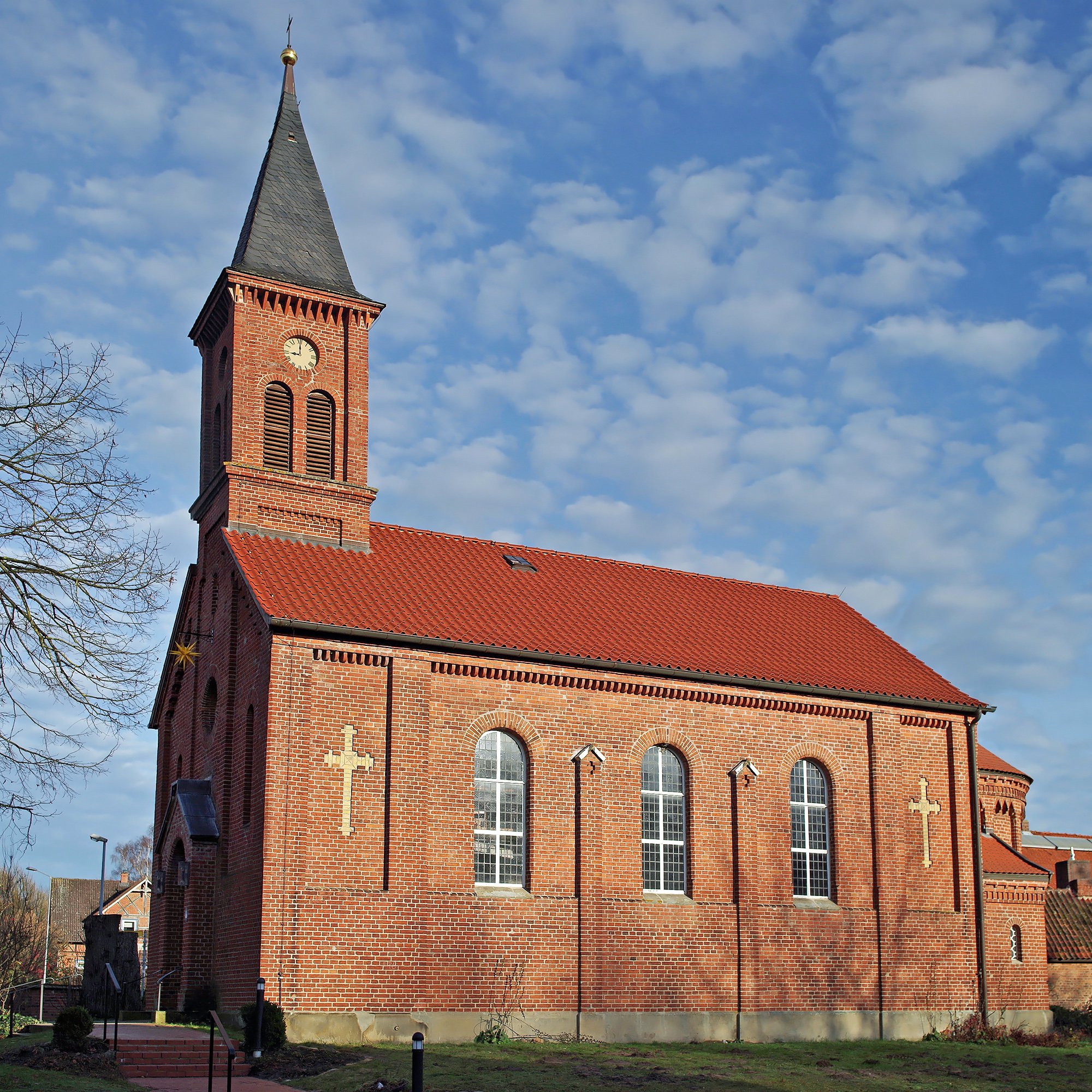 Church "Friedenskirche" in the village Küsten (district Lüchow-Dannenberg, northern Germany).